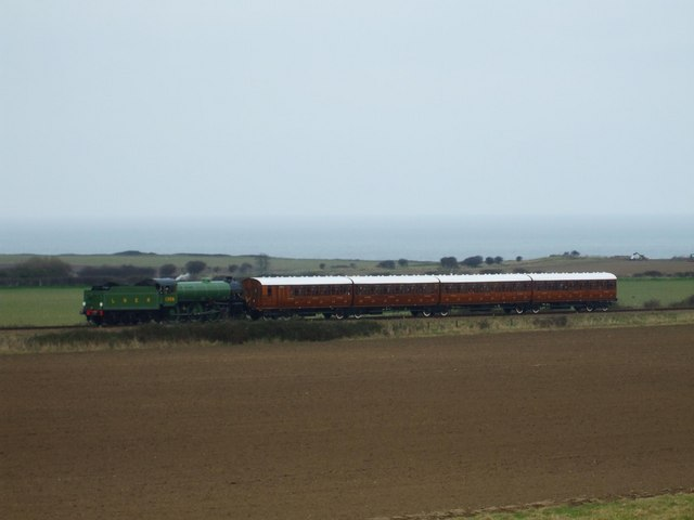 Mayflower in LNER green on the Quad Art set